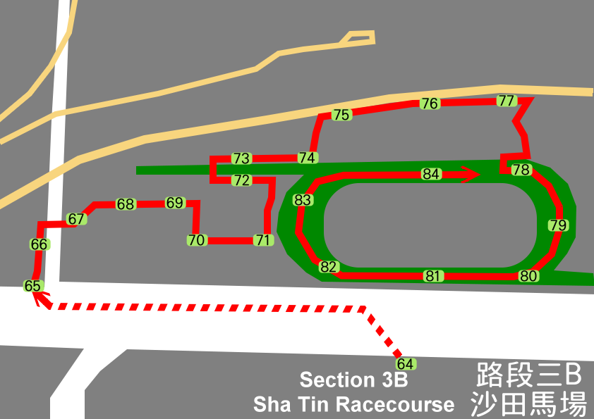 2008 Summer Olympic Torch Relay in Hong Kong, Section 3B, Sha Tin Racecourse